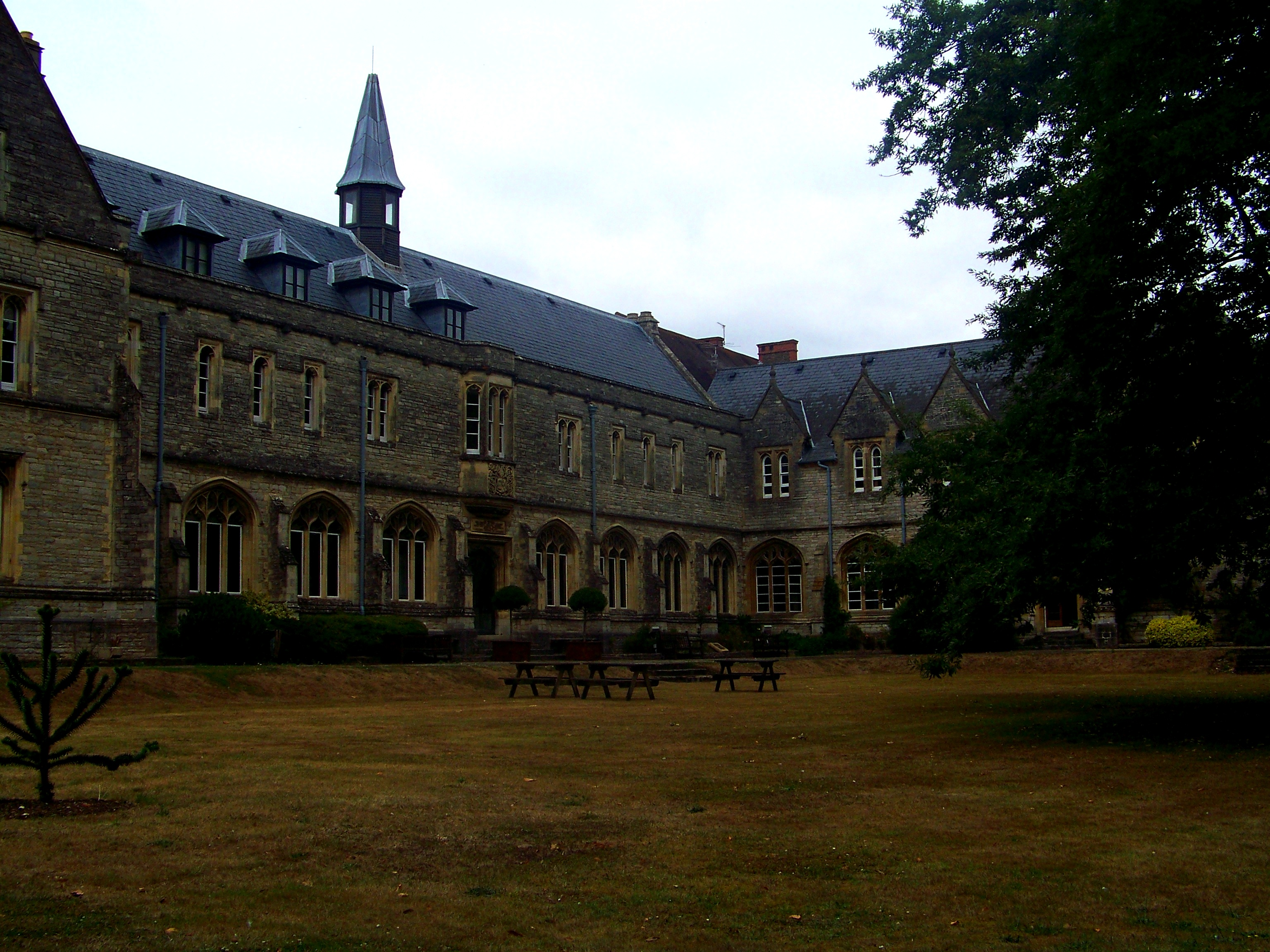 University House, part of the original college. (Architect: Joseph Butler)